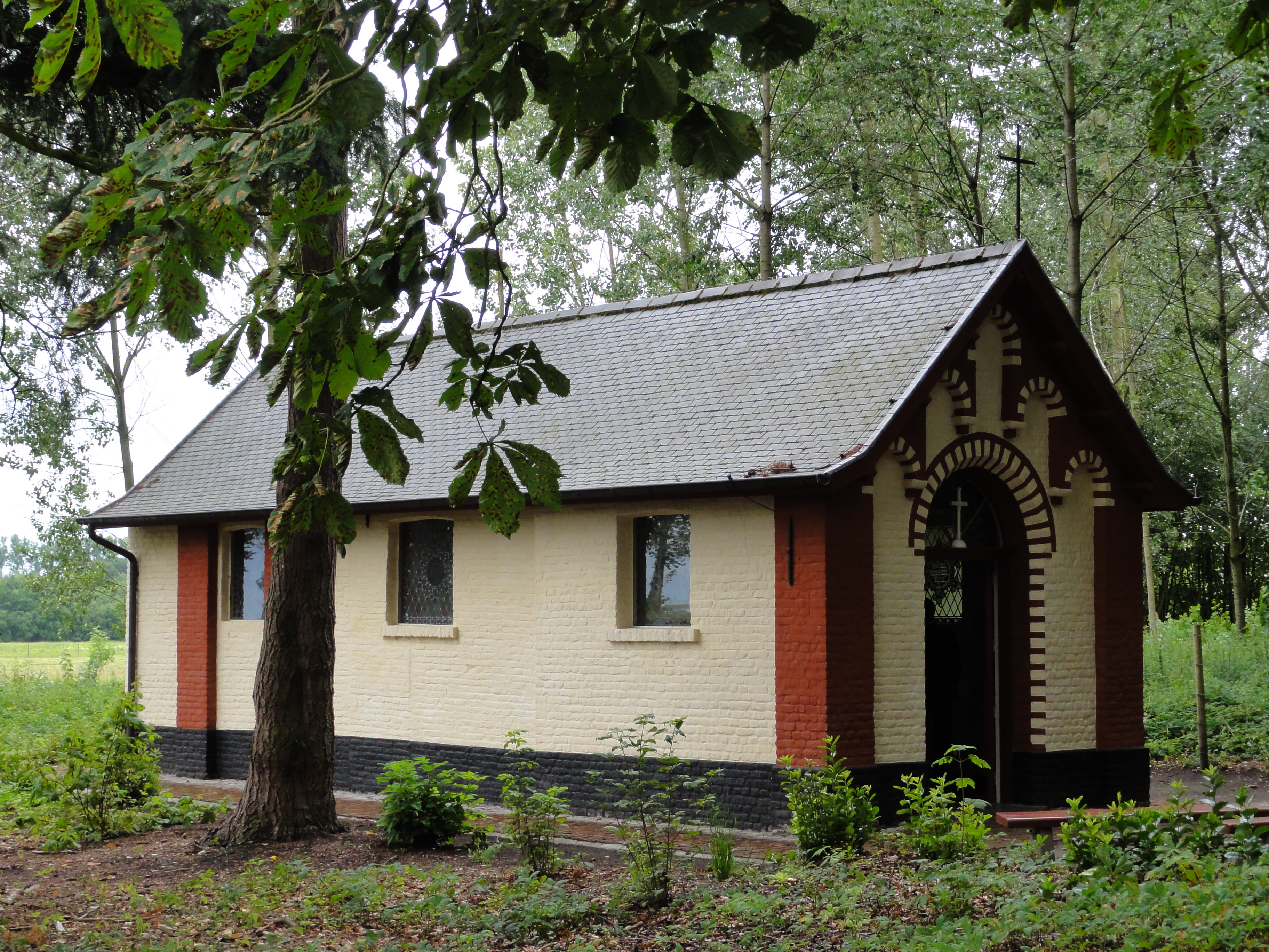 "Onze-Lieve-Vrouwekapel" (Chapel of Our Lady) of Wijnendale, close to the Wijnendale castle. Wijnendale, Torhout, West Flanders, Belgium.